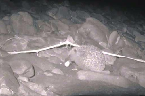 Night time infra-red photograph from a nest monitoring camera of a hedgehog eating a black-fronted tern egg from a recently abandoned nest. Whether the hedgehog was the original cause of the nest being abandoned hasn't been determined. There is a short video at youtube (best shots near the end). Waiau river bed, South Island, New Zealand.